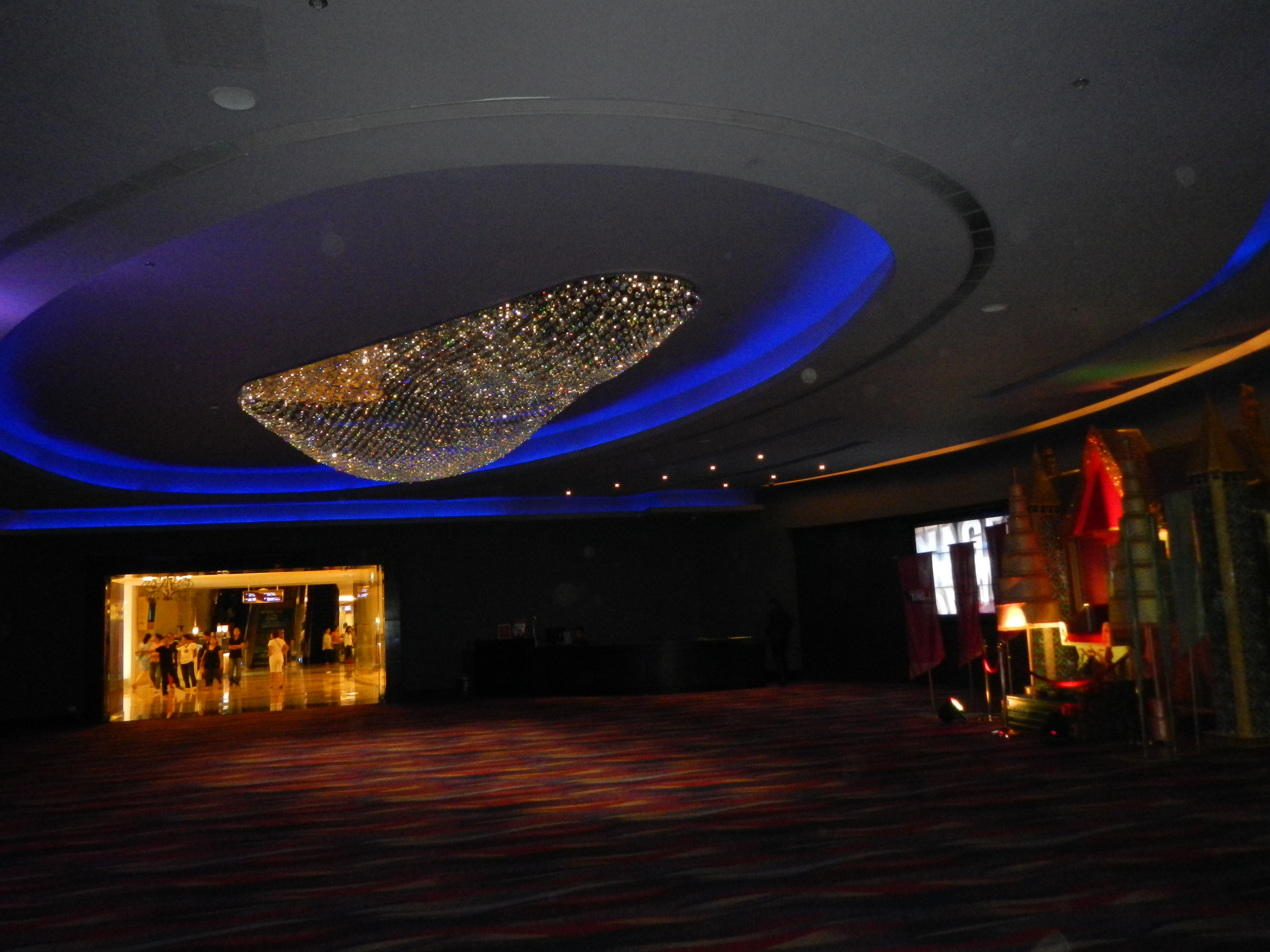 Resorts World Manila[1] is a casino resort, located in Newport City, opposite the Ninoy Aquino International Airport (NAIA) Terminal 3, in Pasay[2], Metro Manila, Philippines. The resort is a joint venture between Alliance Global Group and Genting Hong Kong. The project, occupying part of a former military camp near Manila’s airport, has three hotels with 1,574 rooms, a 30,000 square meter (323,000 square feet) casino and a 30,000 square meter shopping mall.[1] Although the soft launch of the resort took place on 28 August 2009, the grand opening was scheduled on July 2010.[2] Resorts World Manila is the sister resort to Resorts World Genting, Malaysia and Resorts World Sentosa, Singapore.It is the only casino resort in the country until the opening of Solaire Resort & Casino in Entertainment City, Paranaque City on March 16, 2013.[3]Coordinates: 14°31'11"N 121°1'9"E [4] is a 7.8 hectare Entertainment Complex consisting of Marriott Hotel, Maxims Hotel, Remington Hotel, an upscale mall, premium cinemas, theater, and the country's largest casino.[5][6][7]Resorts World Manila to bring beloved fairy tale to life[8]